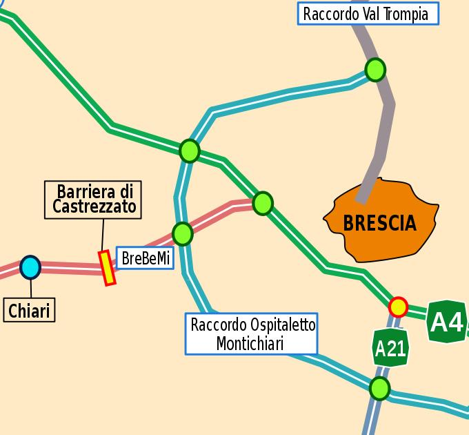 Scheme of the BreBeMi Motorway, Italy